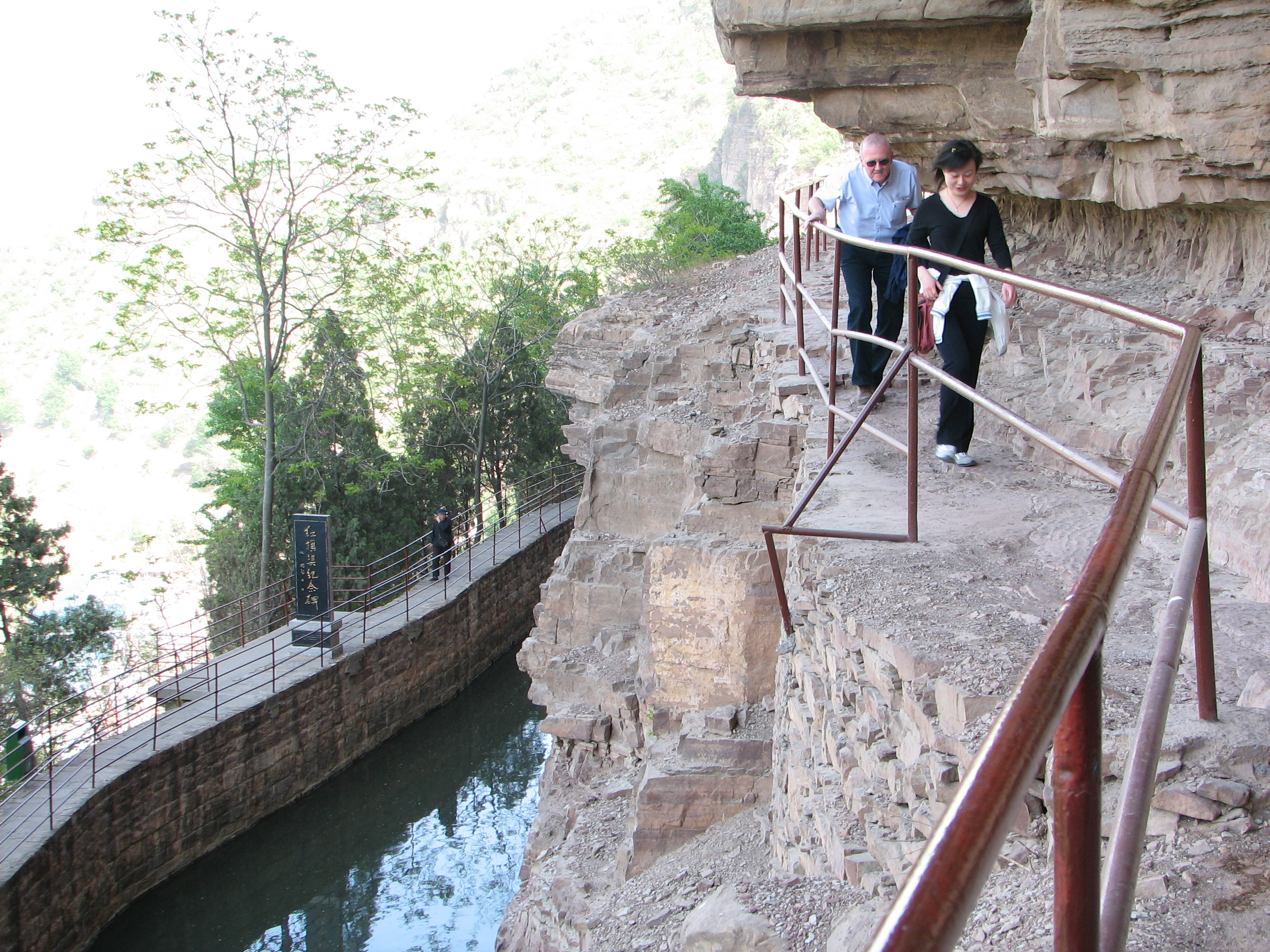 Red Flag Canal at Tigers Mouth Cliff, Henan China